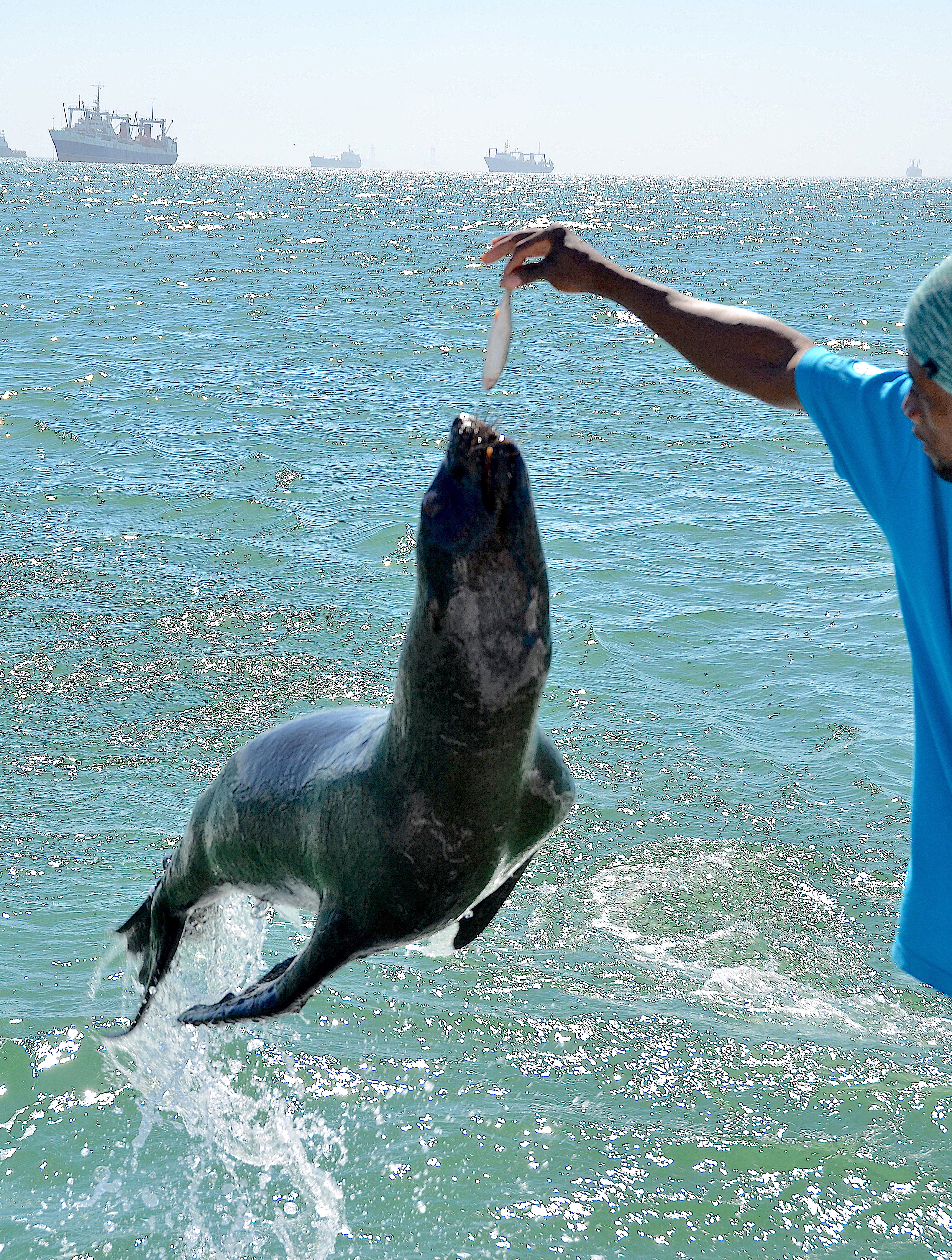 Fur seal near Walvis Bay in Namibia